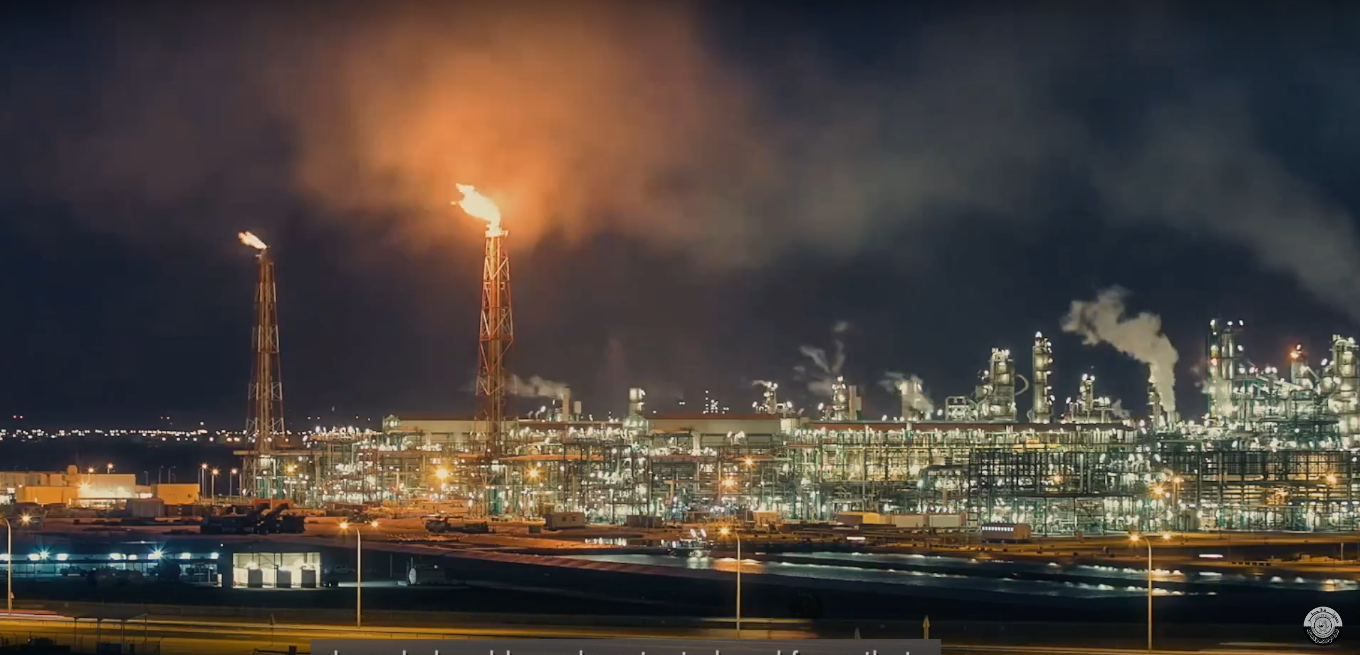 View of industrial activity at Mesaieed Industrial Area in 2017; screenshot taken at the 2:38 mark of a video uploaded to YouTube by the Ministry of Transport and Communications of Qatar under the CC-BY-3.0 license.